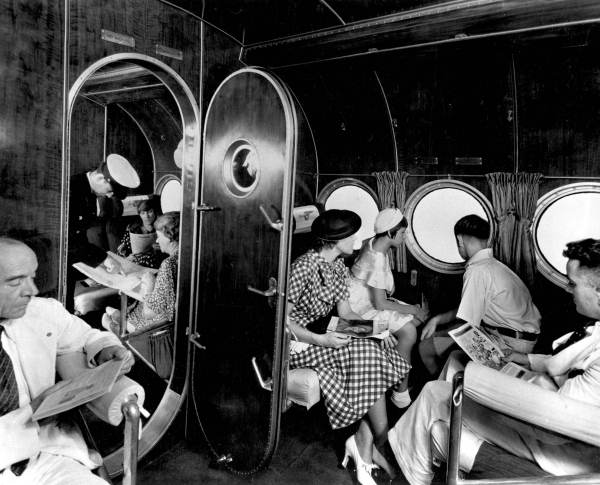 Local call number: Rc07641 Title: [Interior view of Sikorsky S-42 plane: Miami, Florida] Publication info: ca. 1934 Physical descrip: 1 photoprint: b&w; 8 x 10 in. Series Title: (Reference collection) Repository: State Library and Archives of Florida, 500 S. Bronough St., Tallahassee, FL 32399-0250 USA. Contact: 850.245.6700. Persistent URL: [1]